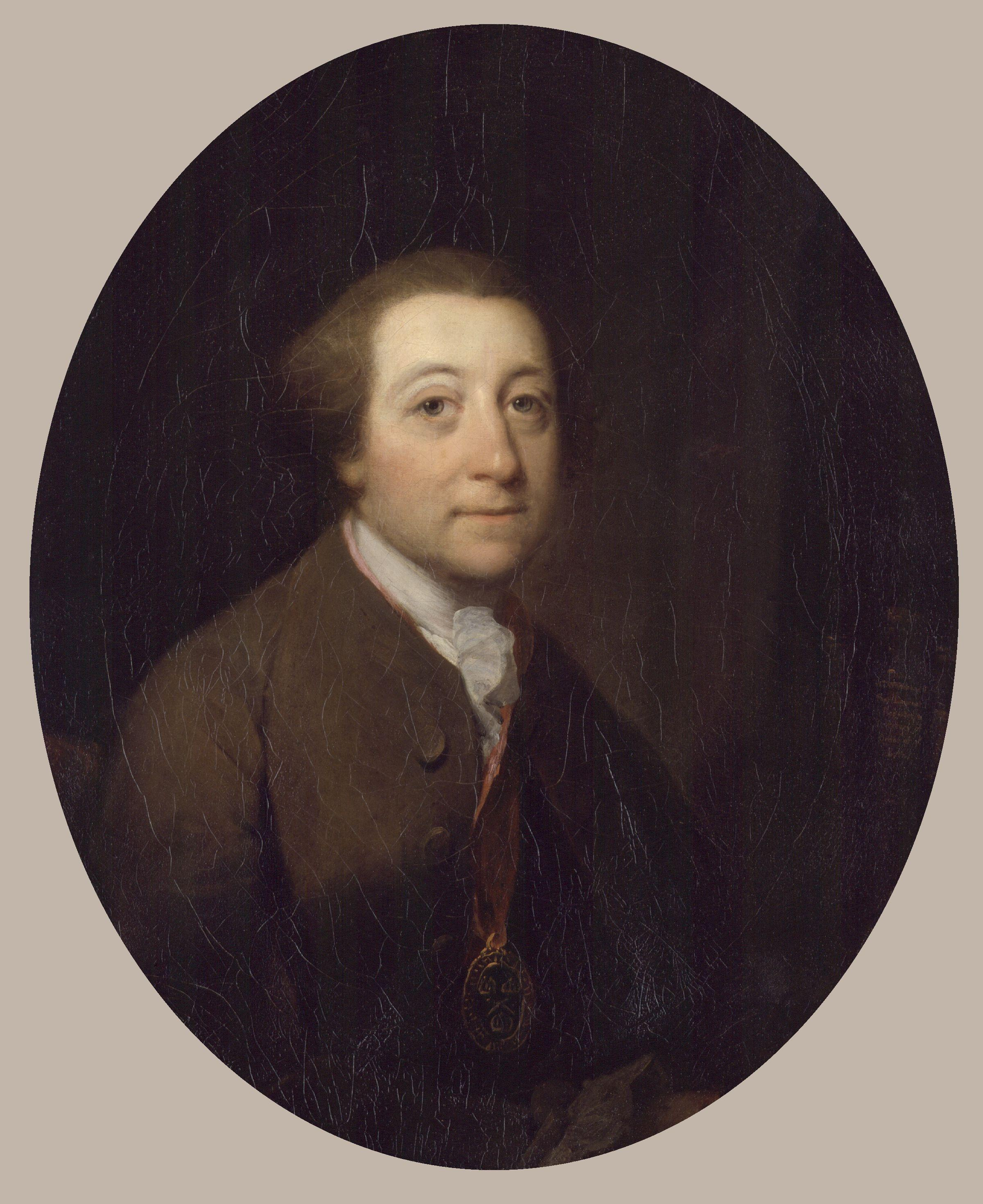 William Whitehead, by Benjamin Wilson (died 1788). All images in this batch have been confirmed as author died before 1939 according to the official death date listed by the NPG.